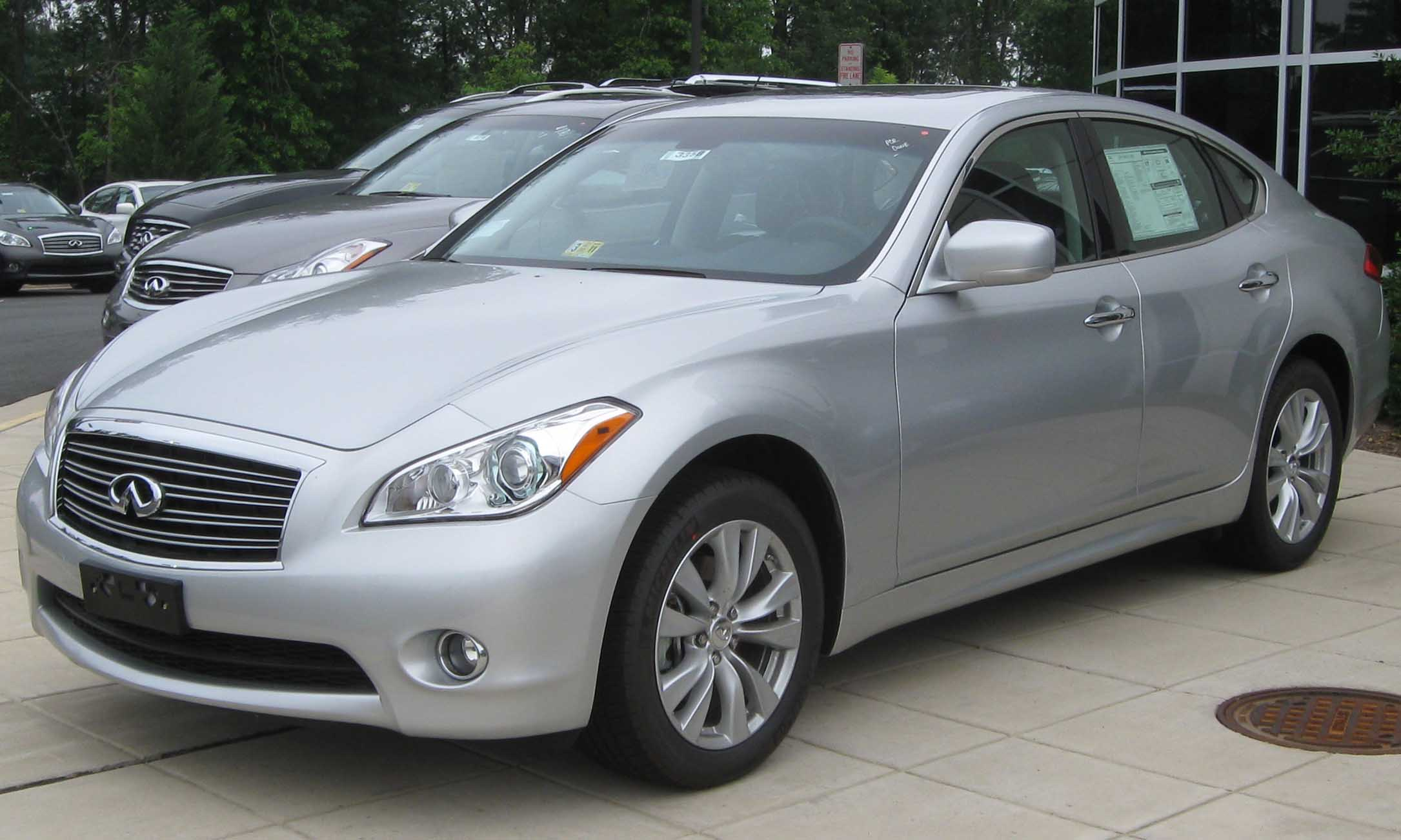 2011 Infiniti M37X photographed in Chantilly, Virginia, USA.